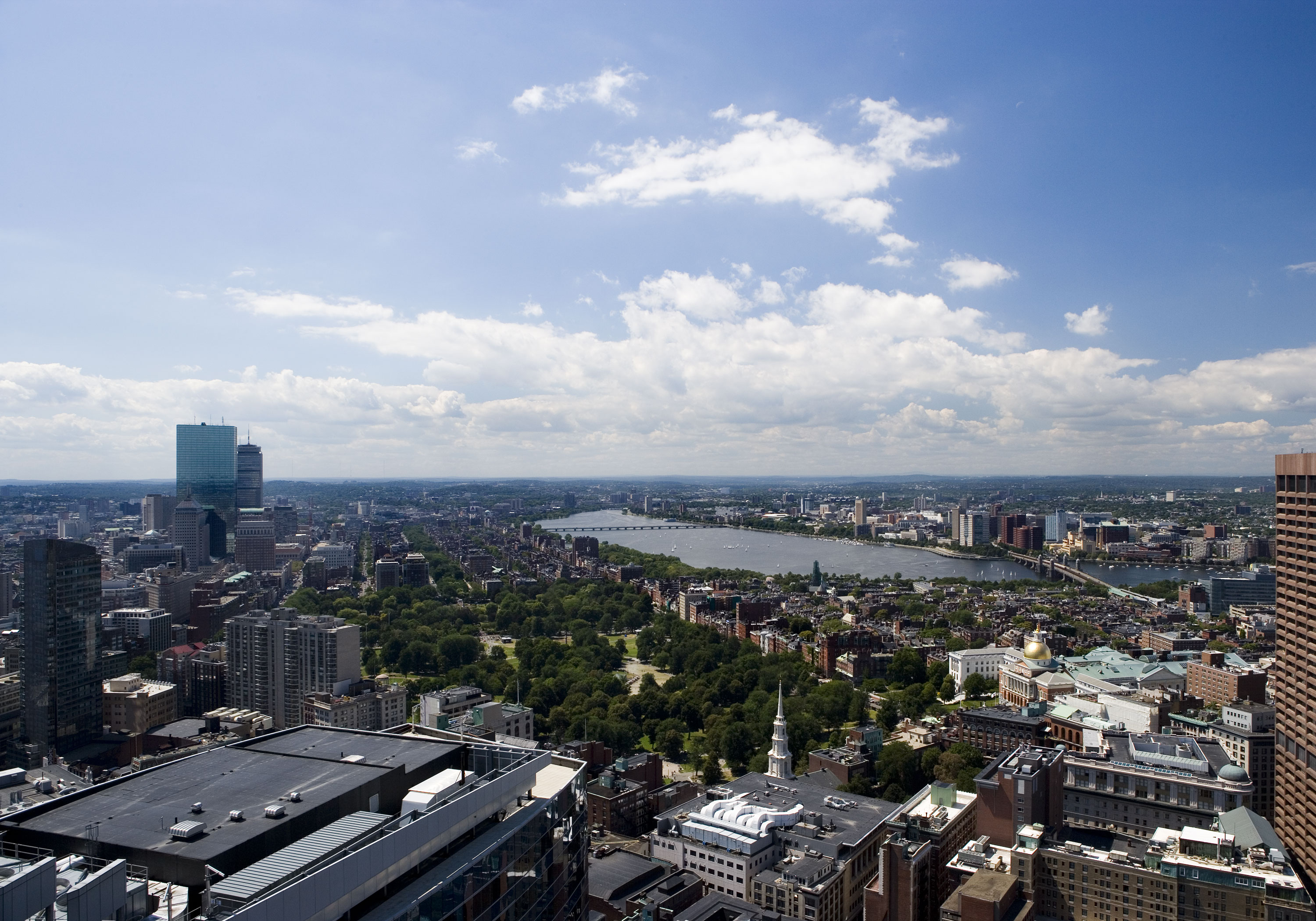 View from the Harvard Club of Boston Downtown Clubhouse, top floor of the One Federal Street Building, facing towards Back Bay.